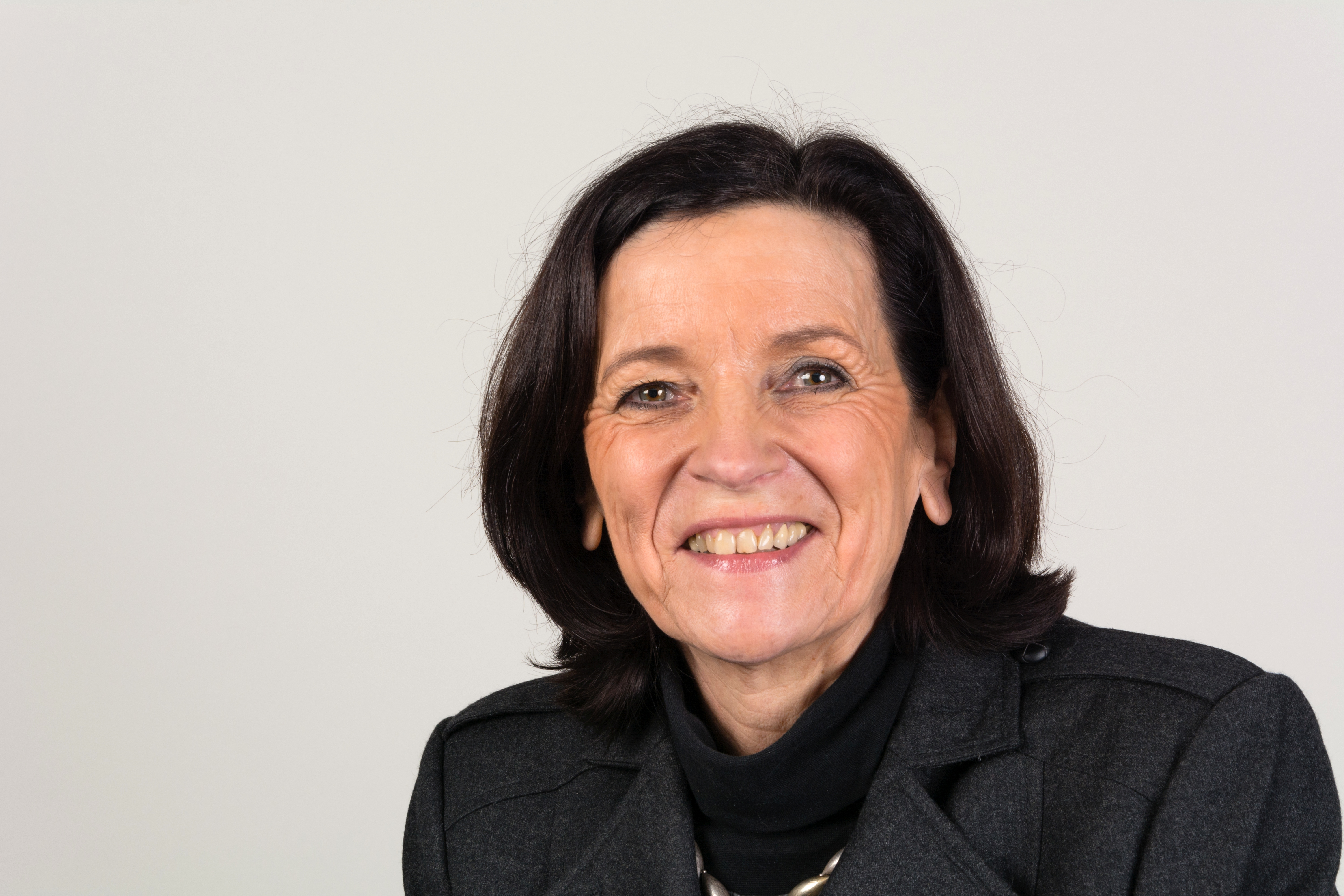 Christa Klaß, Germany, 2014 Member of the European Parliament (MEP)